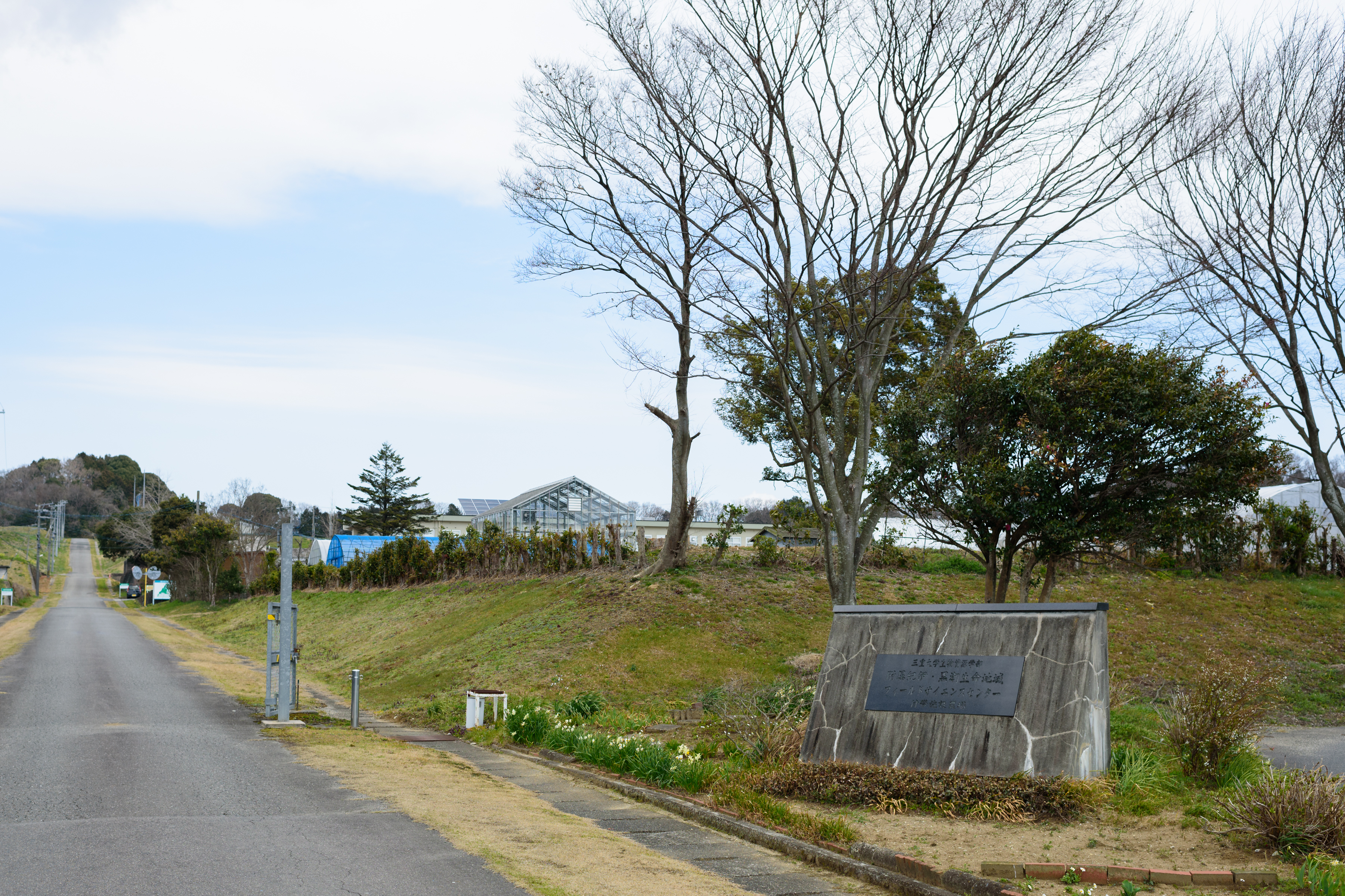 Mie University Farm Station, Takanoo-cho, Tsu, Mie, Japan